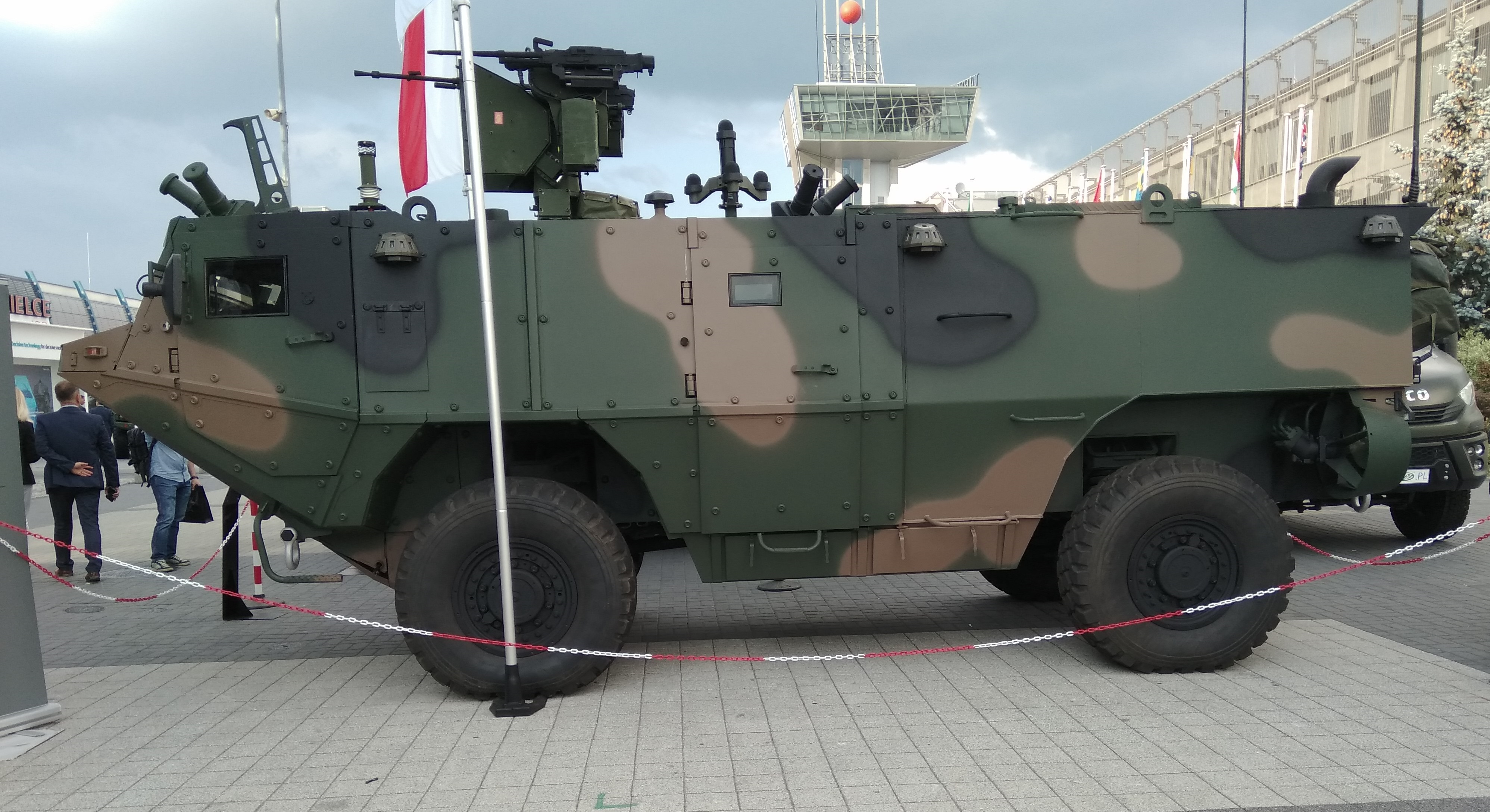 prototype of BÓBR 3 from AMZ Kutno Poland